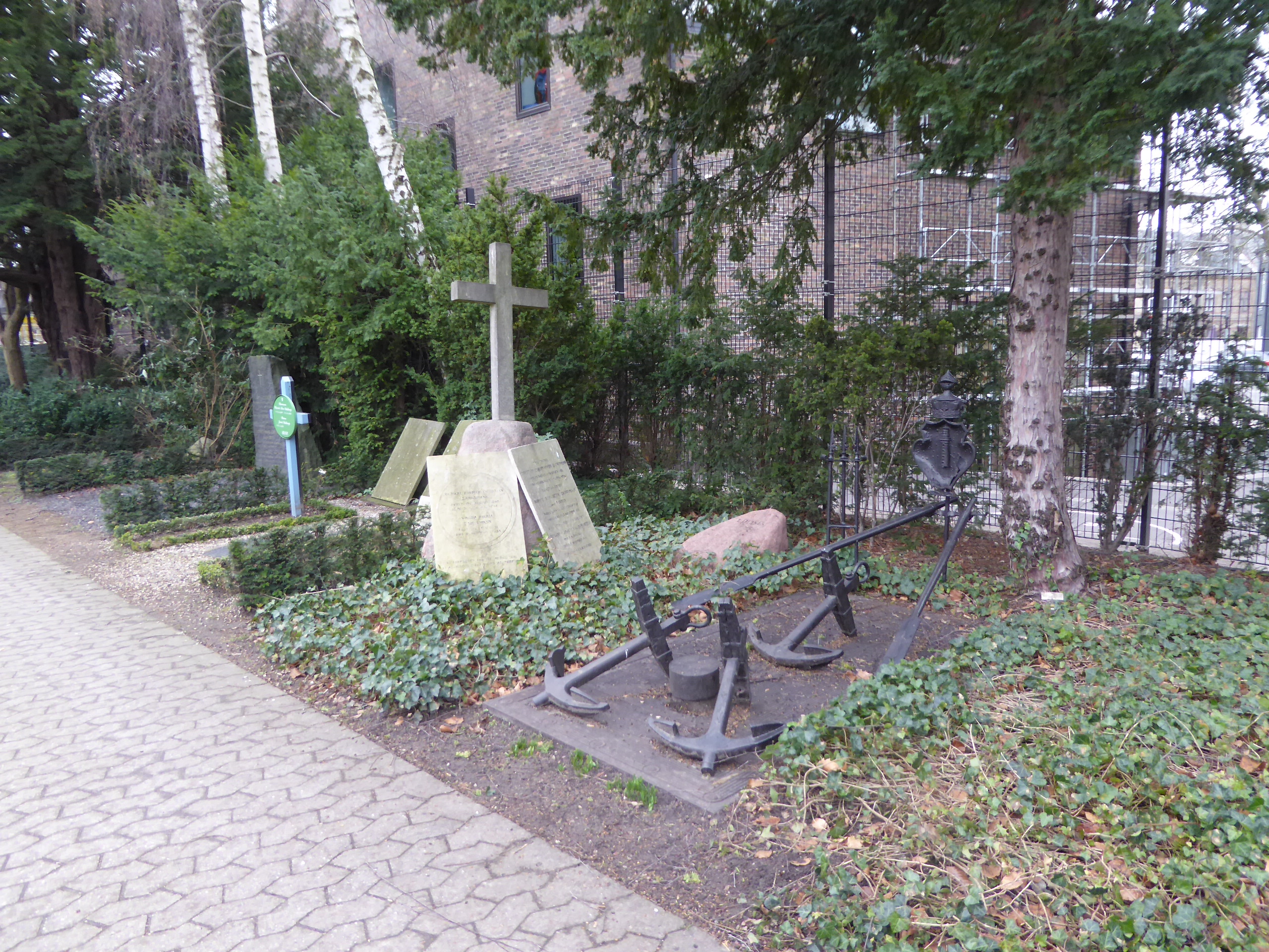 Grave of the viceadmiral Christian Christopher Zahrtmann (1793-1853) at Holmens Kirkegård in Copenhagen.